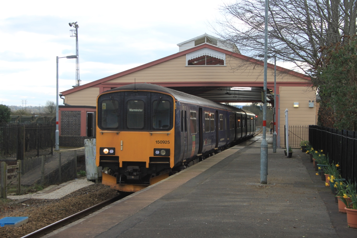 One of First Great Western's three-car class 150s, number 150925, sits at Frome station with a local service from here to Warminster.